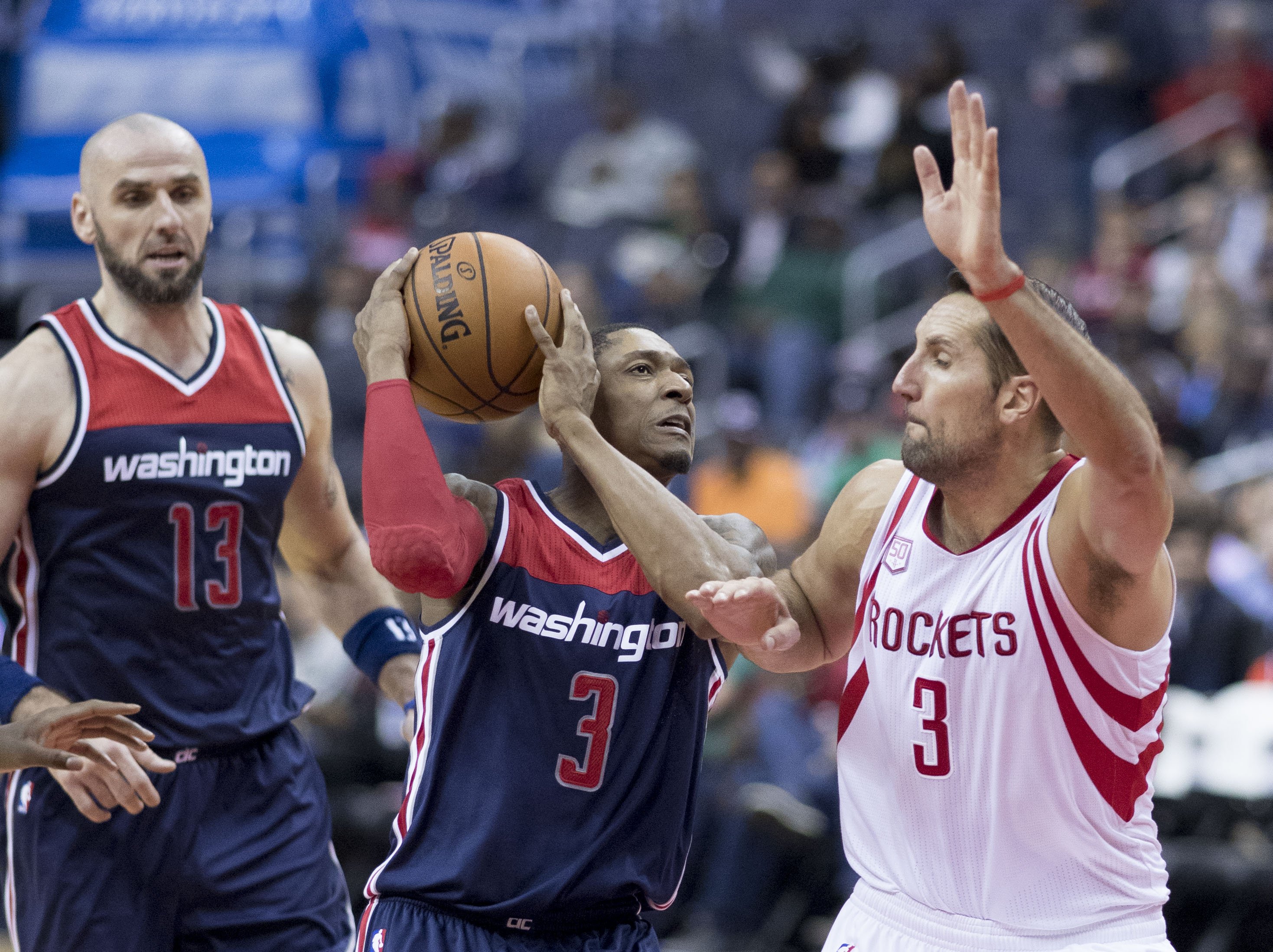 Rockets at Wizards 11/7/16